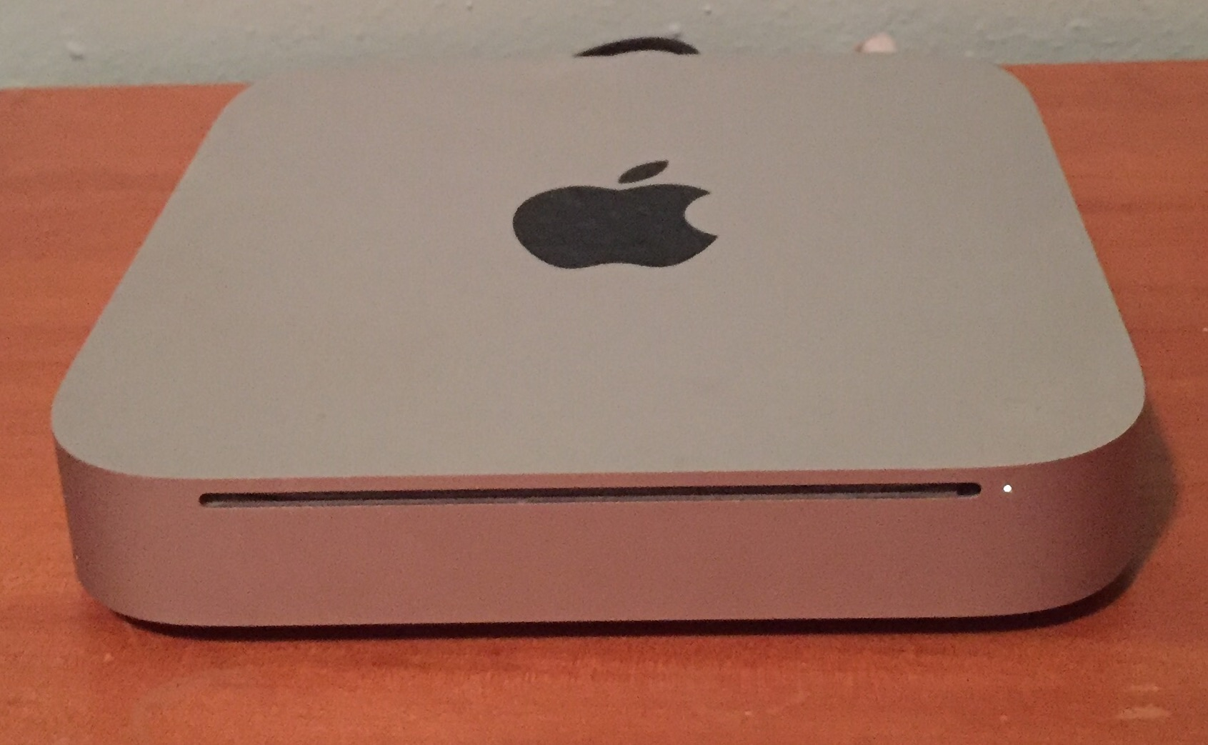 Mac Mini 2010